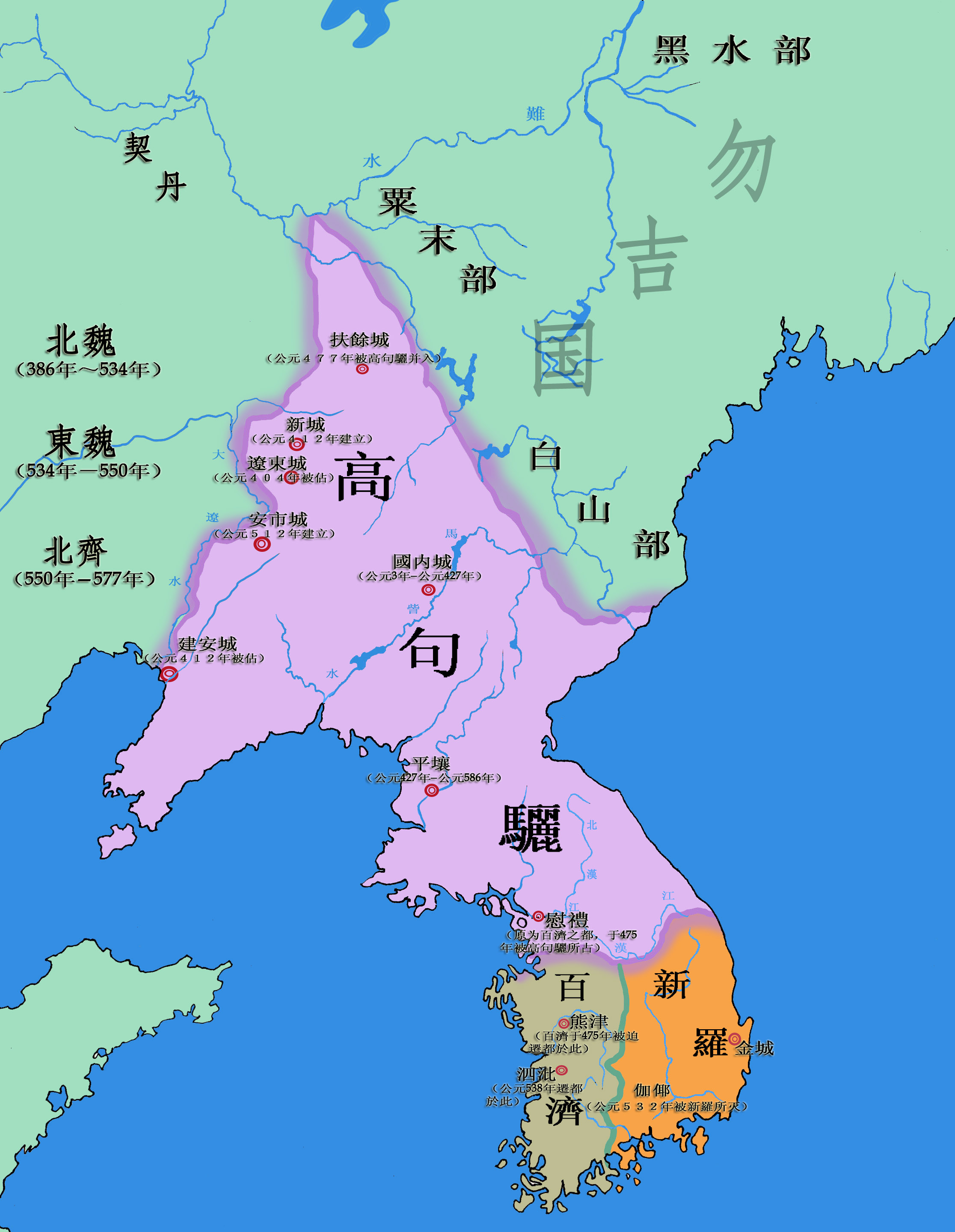 Map of zenith Goguryeo.jpg